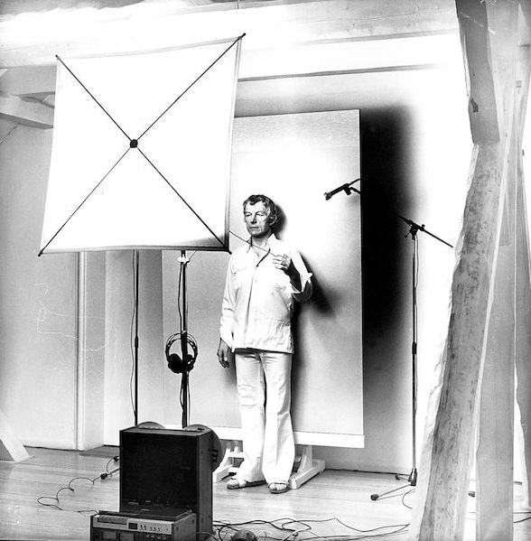 Roman Opalka by Lothar Wolleh